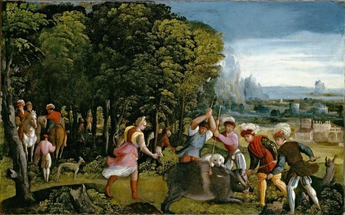 The Hunt of the Calydonian Boarlabel QS:Lde,"Die Jagd auf dem kalydonischen Eber"label QS:Len,"The Hunt of the Calydonian Boar"